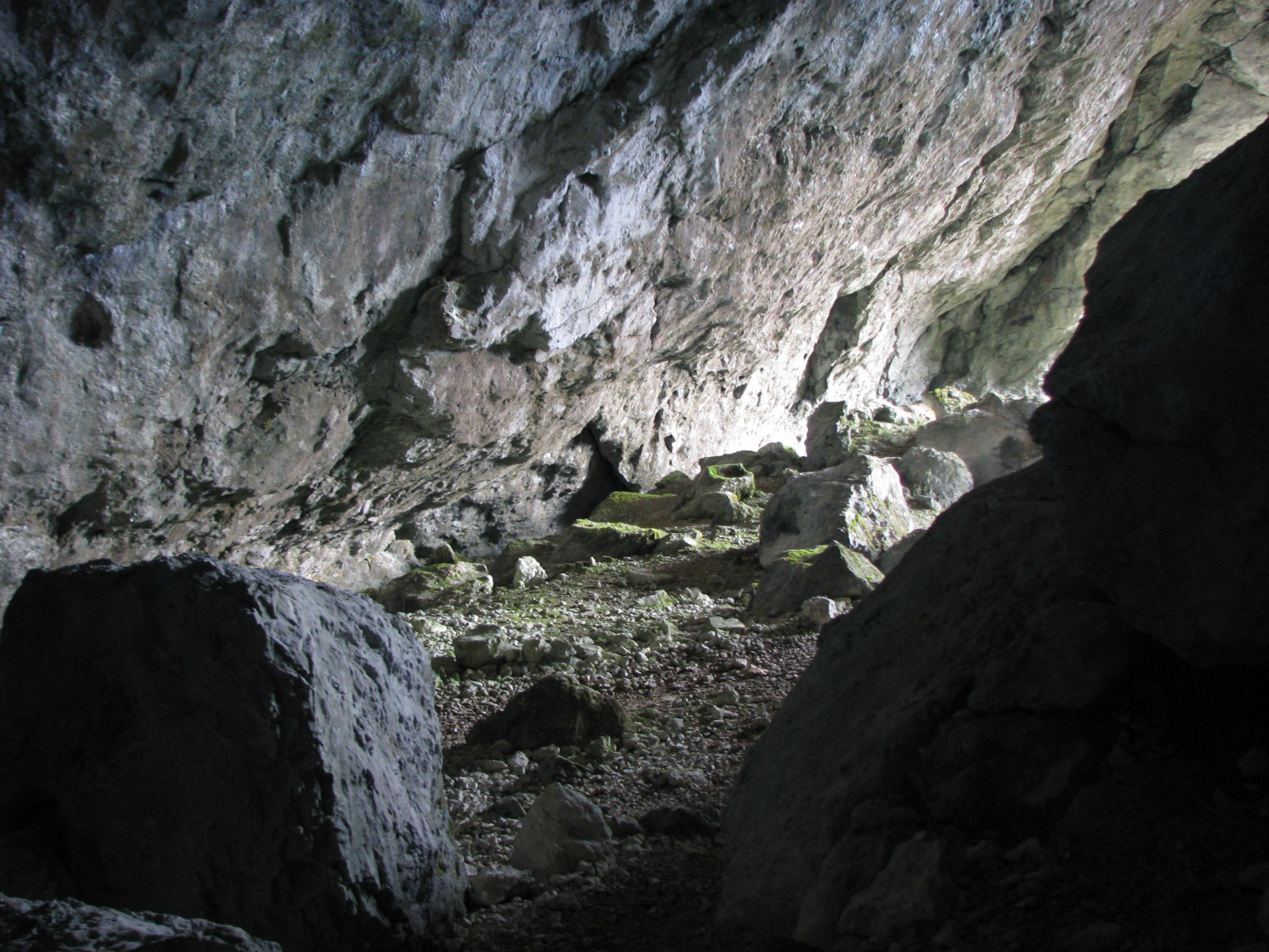 Inside the Potok Cave, Slovenia, in 2013